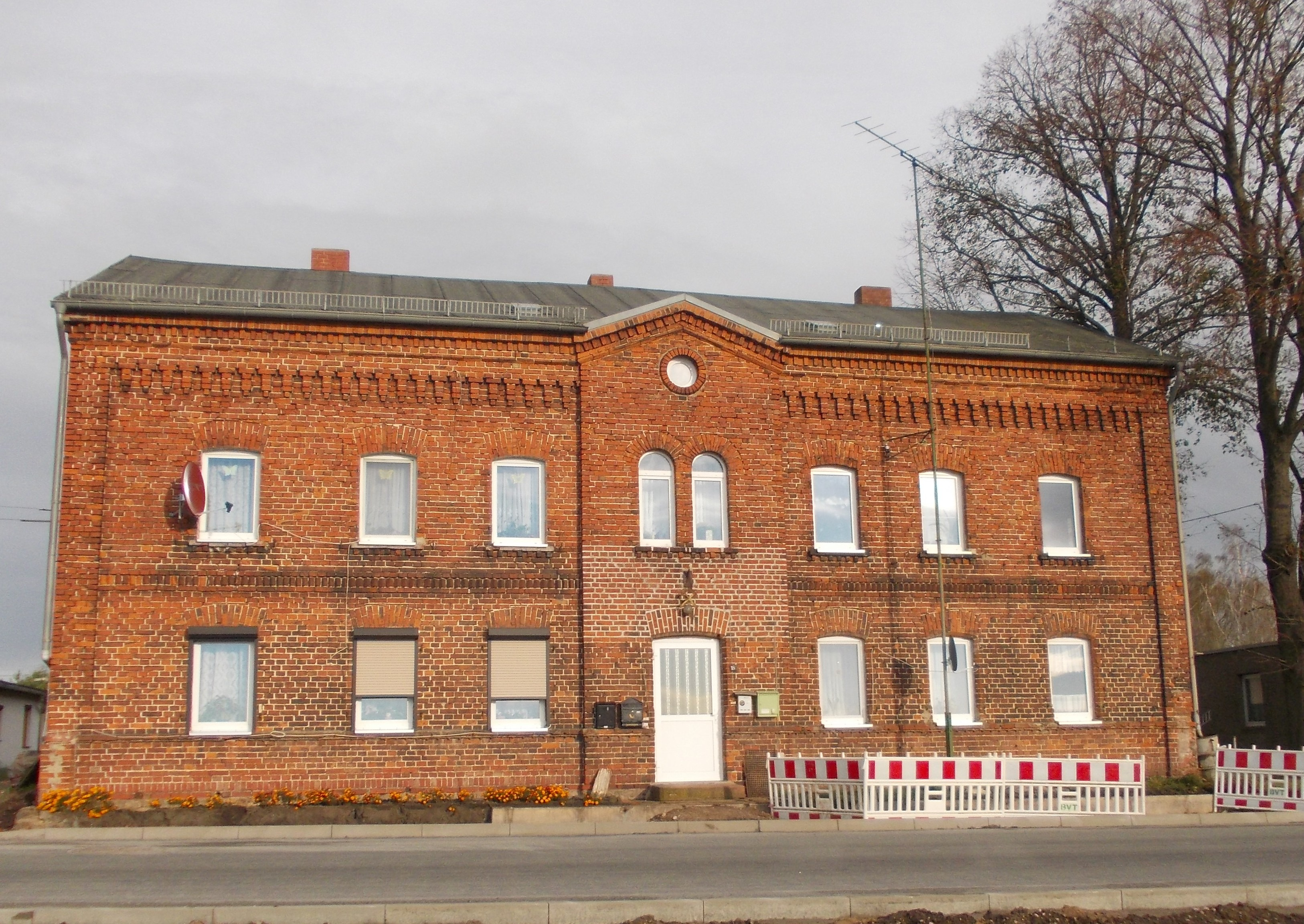 No. 18, Lindenstrasse in Gröbers/Schwoitsch (Kabelsketal, district: Saalekreis, Saxony-Anhalt)